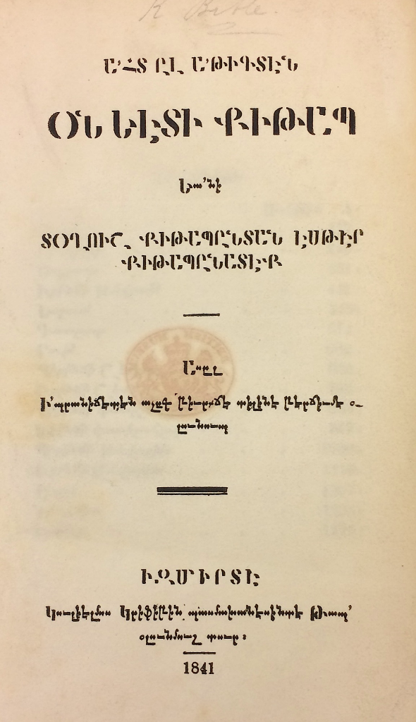 Ahd-i Atikten On Yedi Kitap, yani Doğuş Kitabından Ester Kitabınadek, or The Old Testament from Genesis to the Book of Esther. Izmir: Grifilyan Basmahanesi, 1841 (BL 14400.c.4)